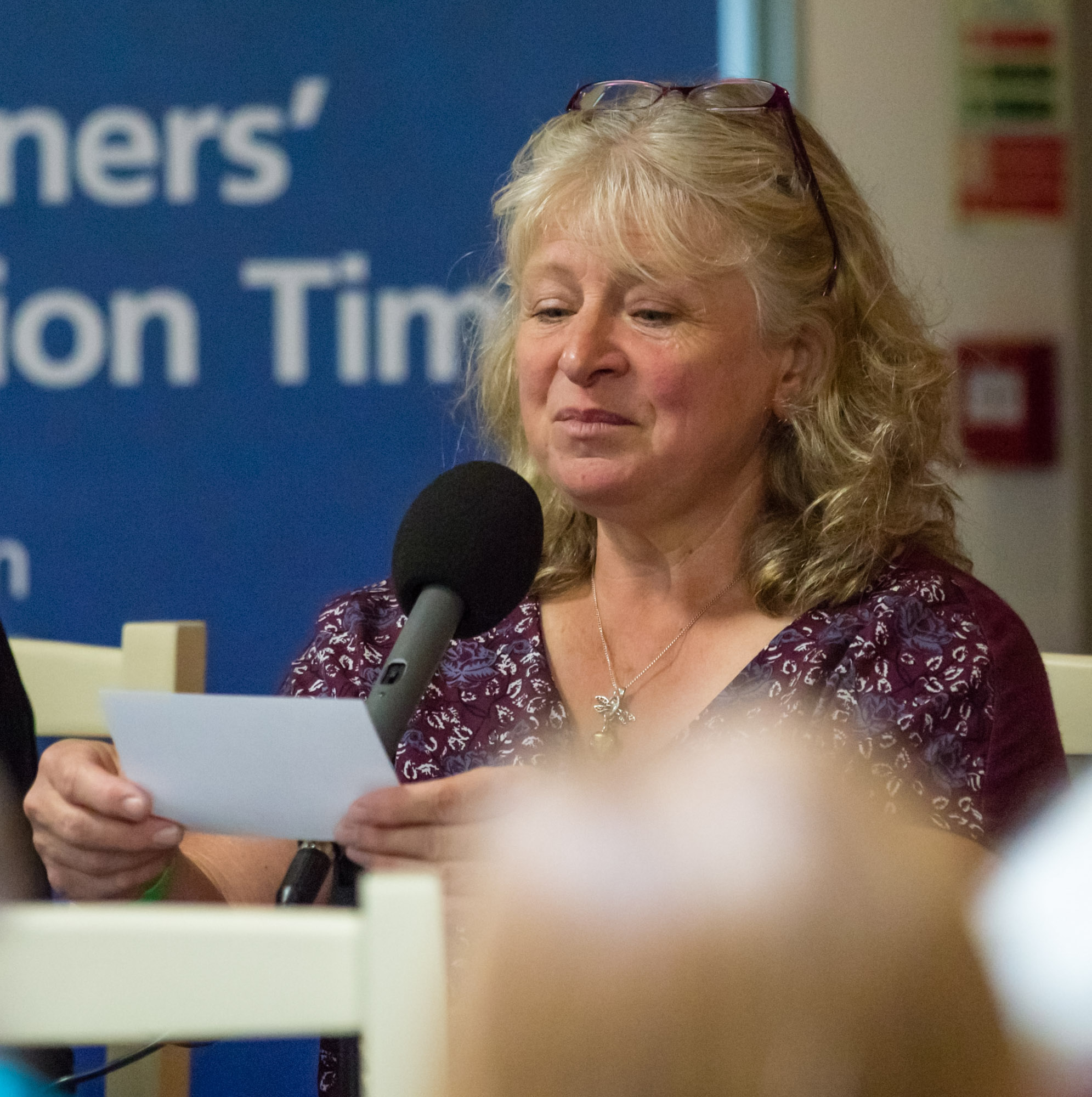 Anne Swithinbank answering questions at the BBC Gardeners' Question Time Summer Garden Party 2016, at the Royal Botanic Garden, Edinburgh.